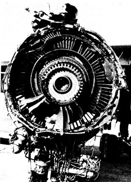 A DC-10 suffered an uncontained engine failure over Datil, New Mexico while operating as Flight 27 from Houston to Las Vegas.